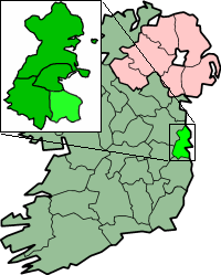 Dun Laoghaire-Rathdown map into Ireland